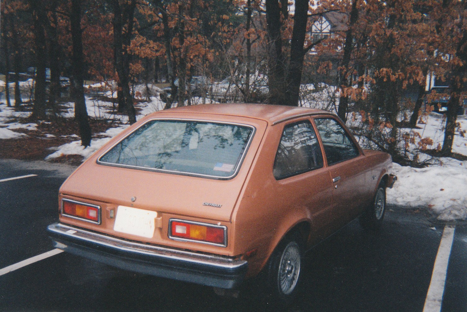 1977 Chevrolet Chevette 1.4 Liter L4